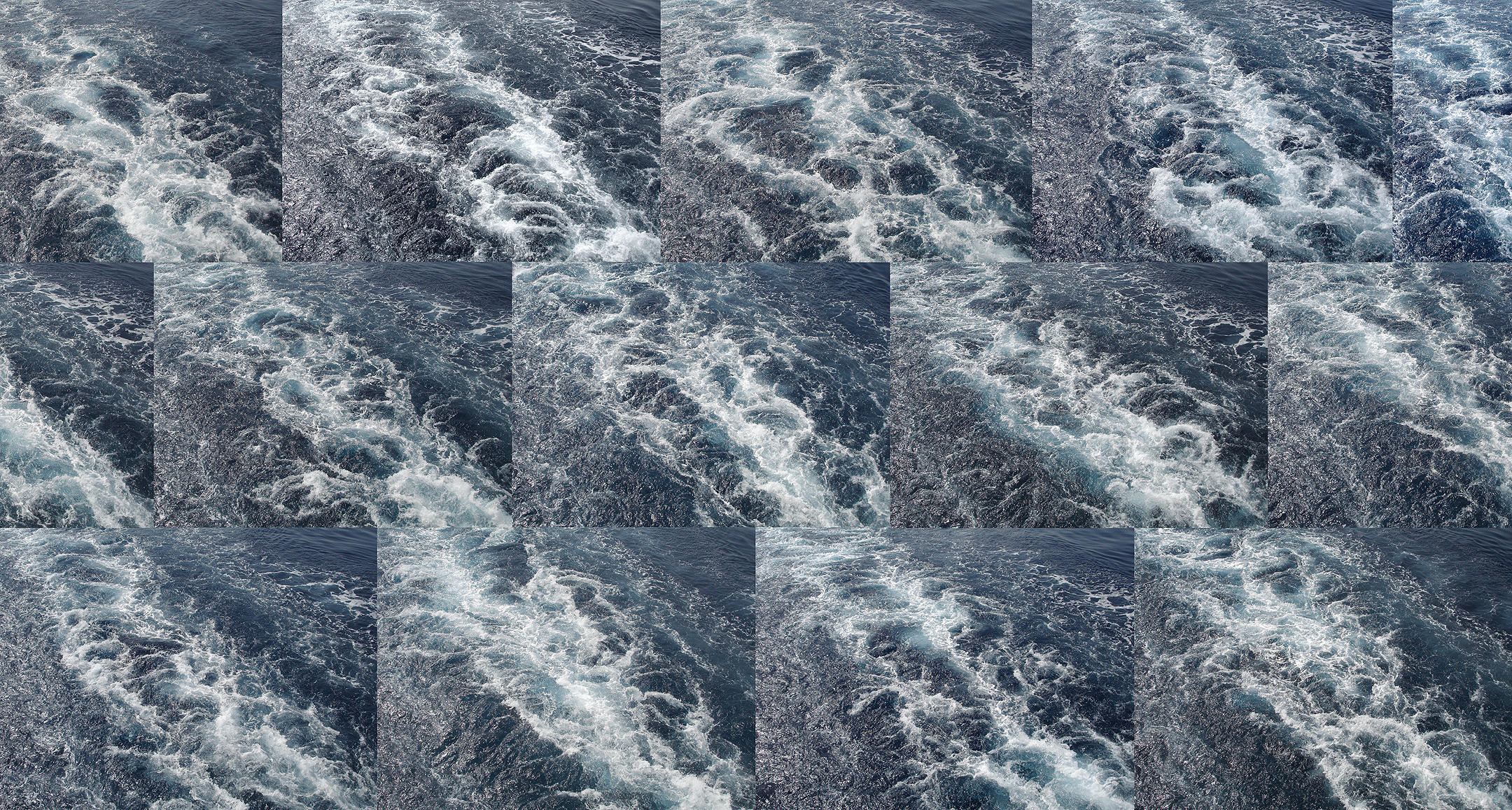 Athena Tacha, Crossing (Sardenia), 2008, digichrome, 30 x 56 in.